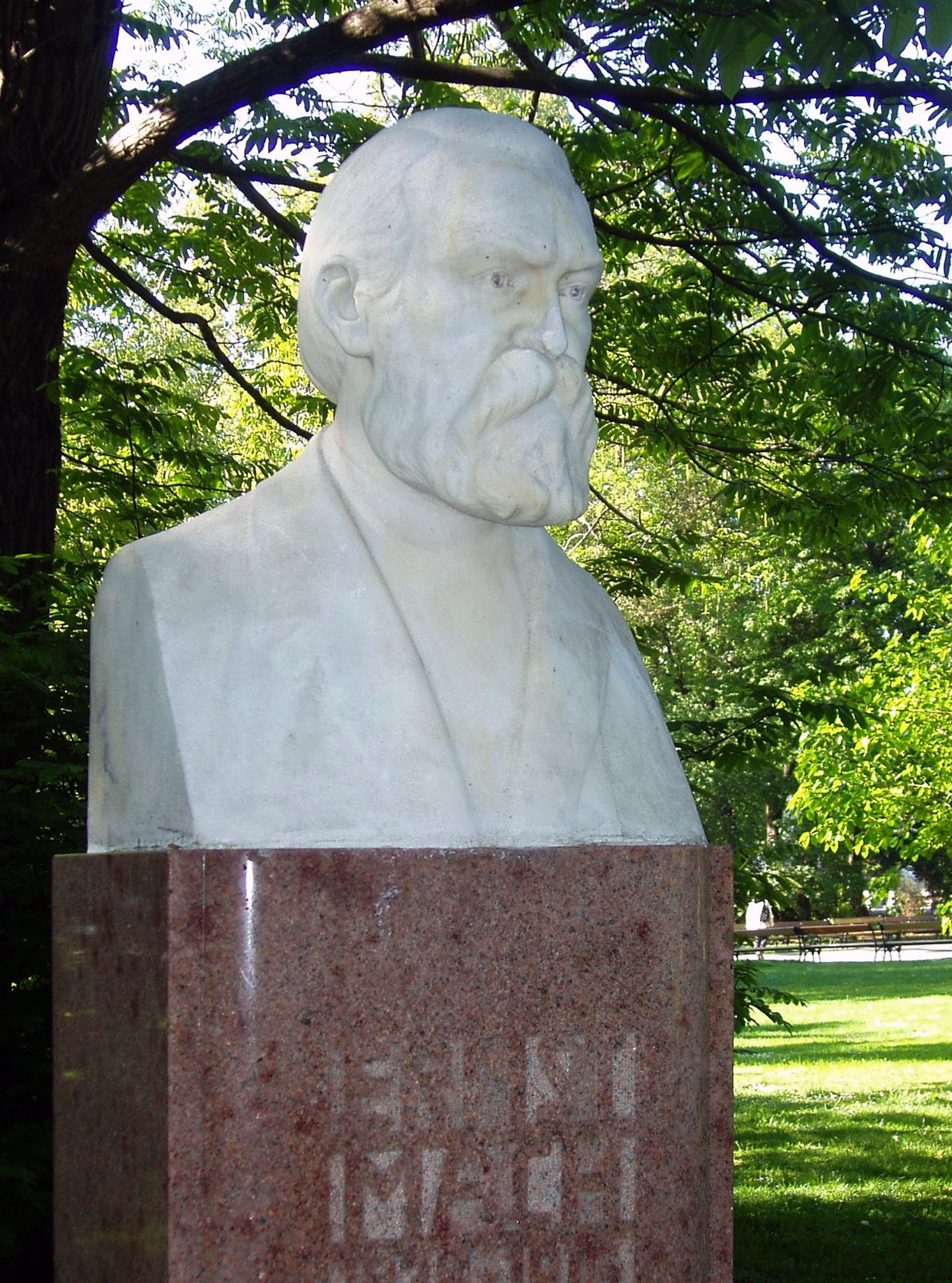 Bust of Ernst Mach, physicist, in the Rathauspark (City Hall Park), Vienna, Austria. Sculptor: Heinz Peter, 1926. (source)